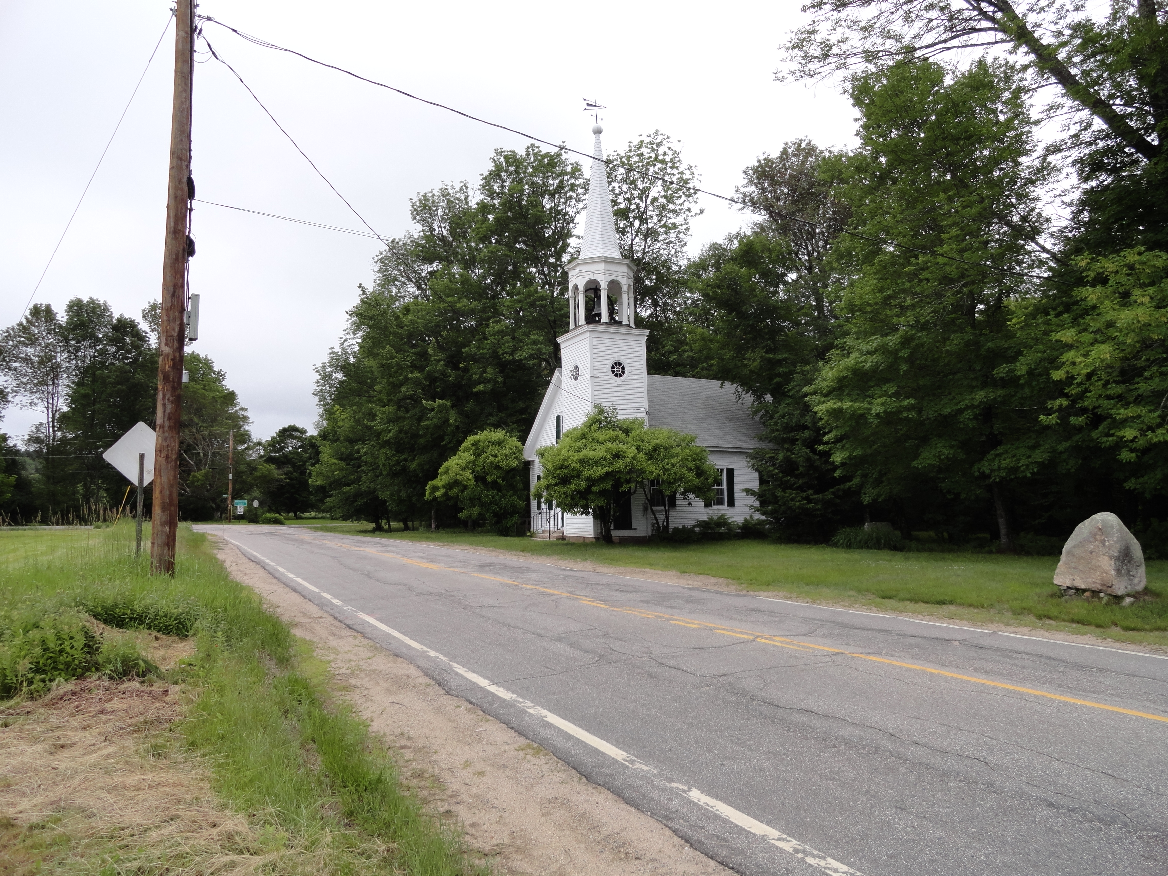 A view of Wonalancet Union Chapel in Wonalancet, New Hampshire.